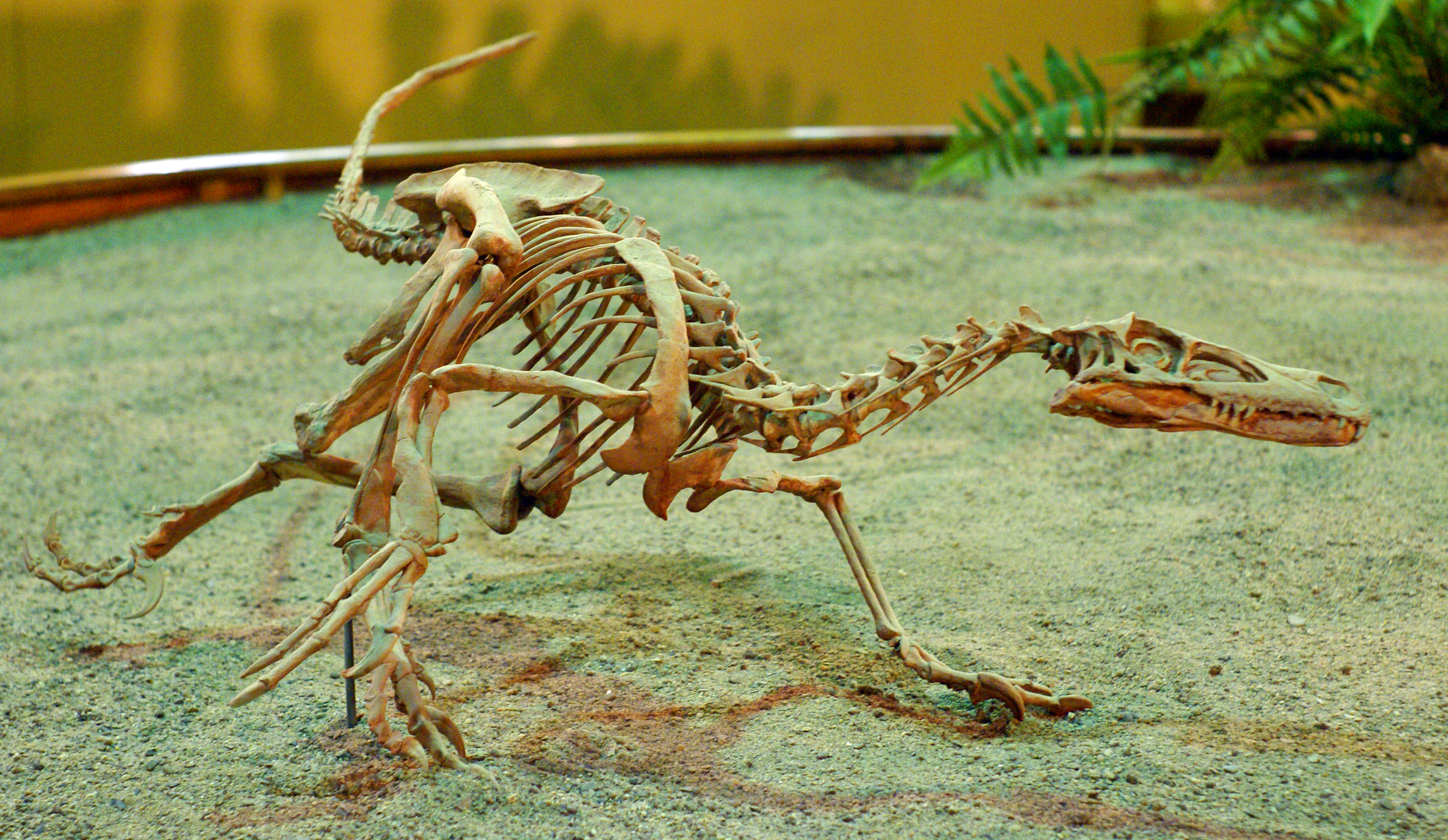 148 Wyoming Dinosaur Center